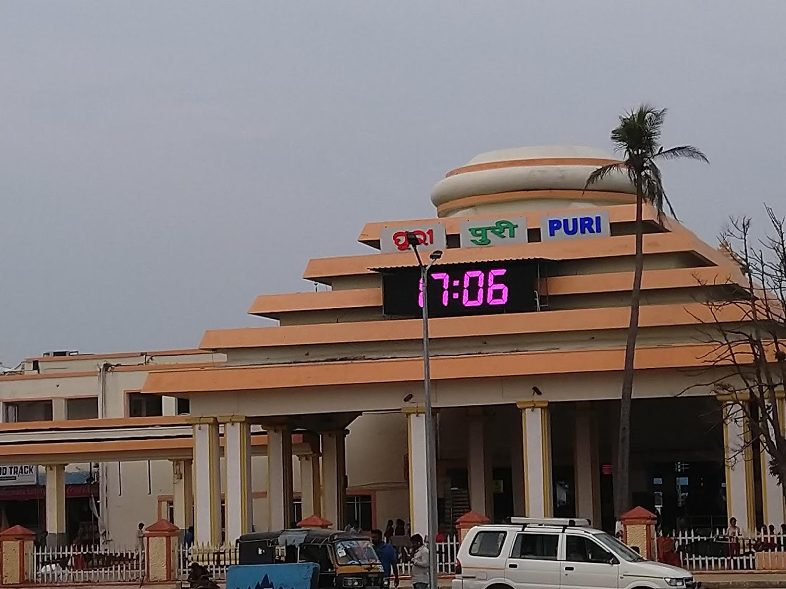 This is the Picture of PURI Railway Station